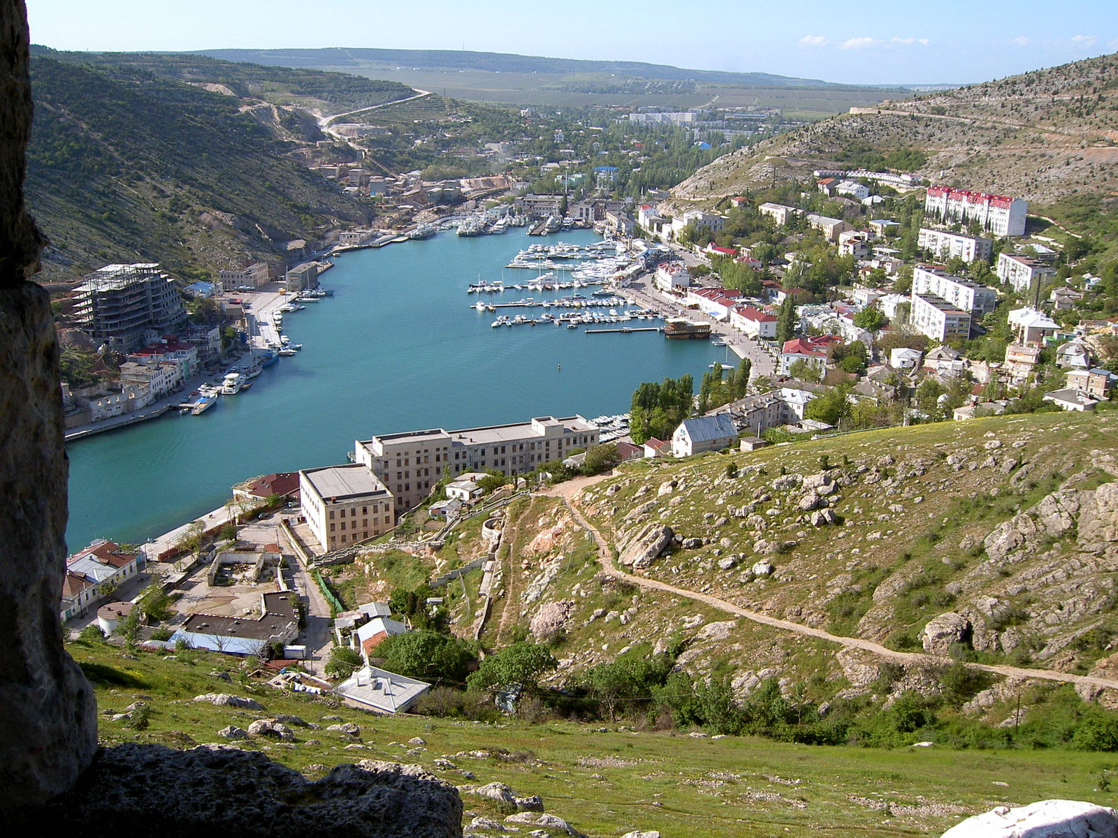 Viev of Balaklawa